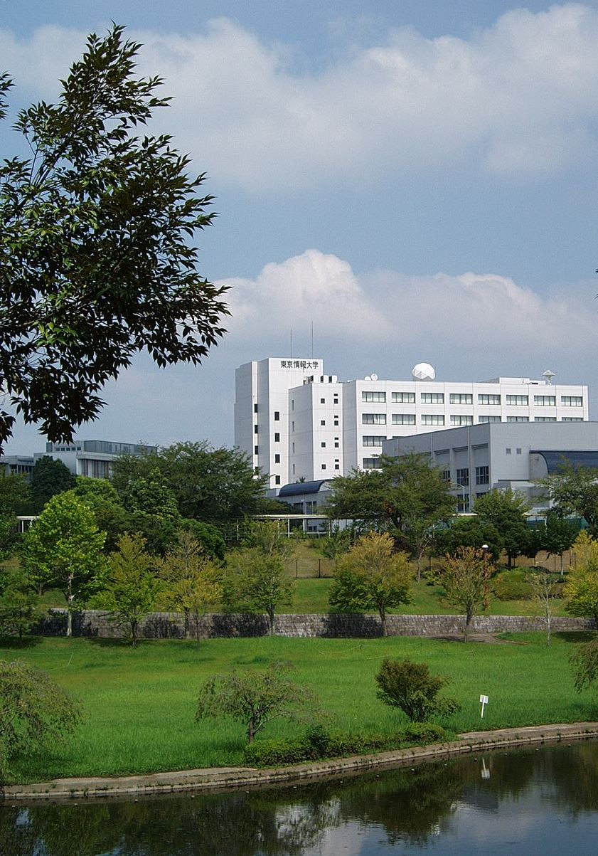 Tokyo University of Information Sciences viewed from Onaridai Park, located in Wakaba-ku, Chiba City, Japan.